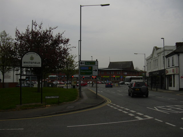 Radcliffe New Road Looking towards the A56 at the Whitefield boundary